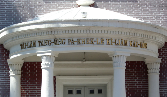 Lintel above the main door of the Barclay Memorial Church in Tainan, Taiwan Bân-lâm-gú: Tâi-lâm Tang-mn̂g Pa-khek-lé Kì-liām Kàu-hōe